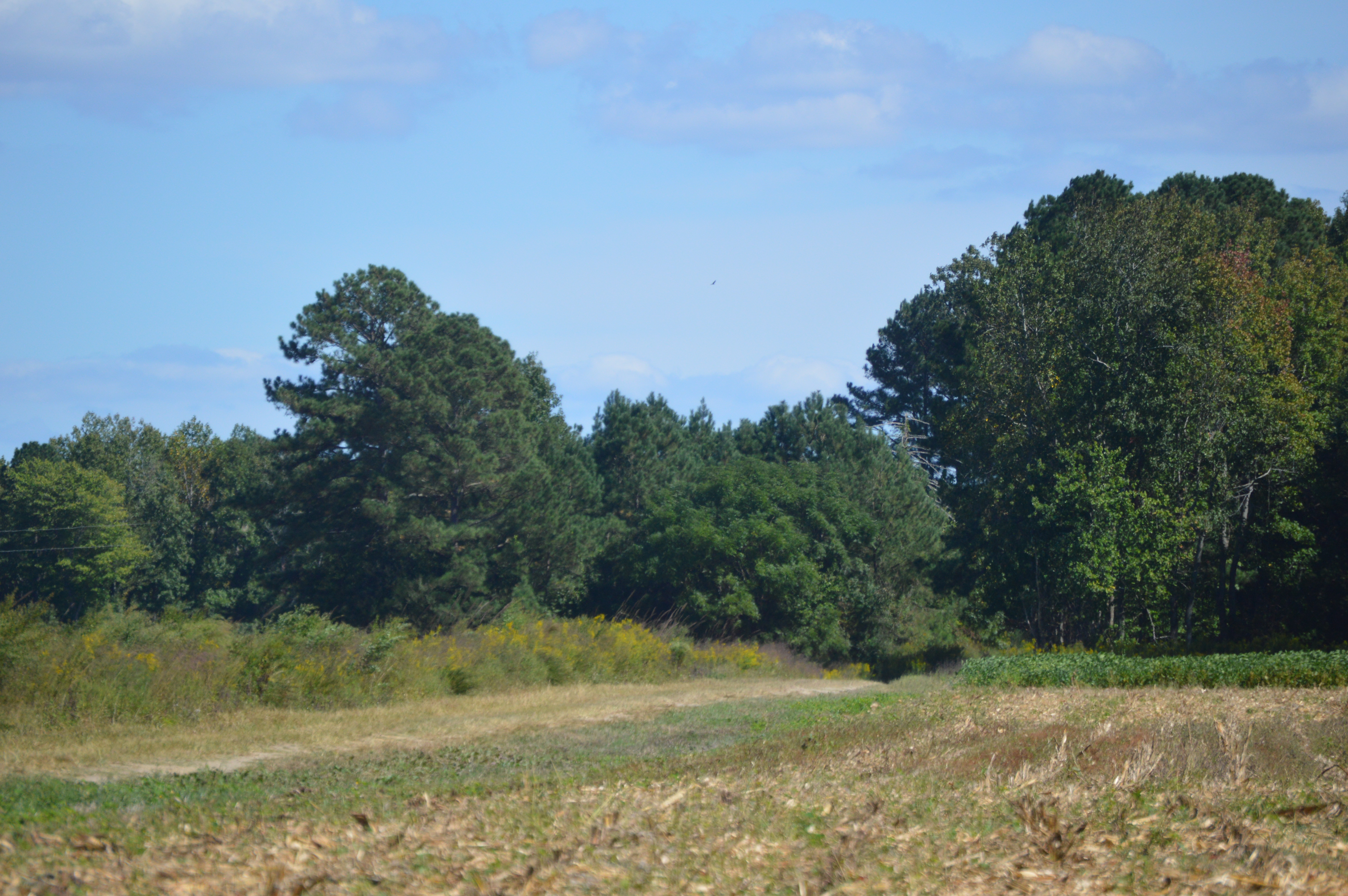 Looking down the driveway toward the site of Wolftrap Farm, which was formerly located on Emmanuel Church Road just west of Smithfield in Isle of Wight County, Virginia, United States. It was listed on the National Register of Historic Places in 1974, but it was later destroyed, and its designation was withdrawn in 2017.